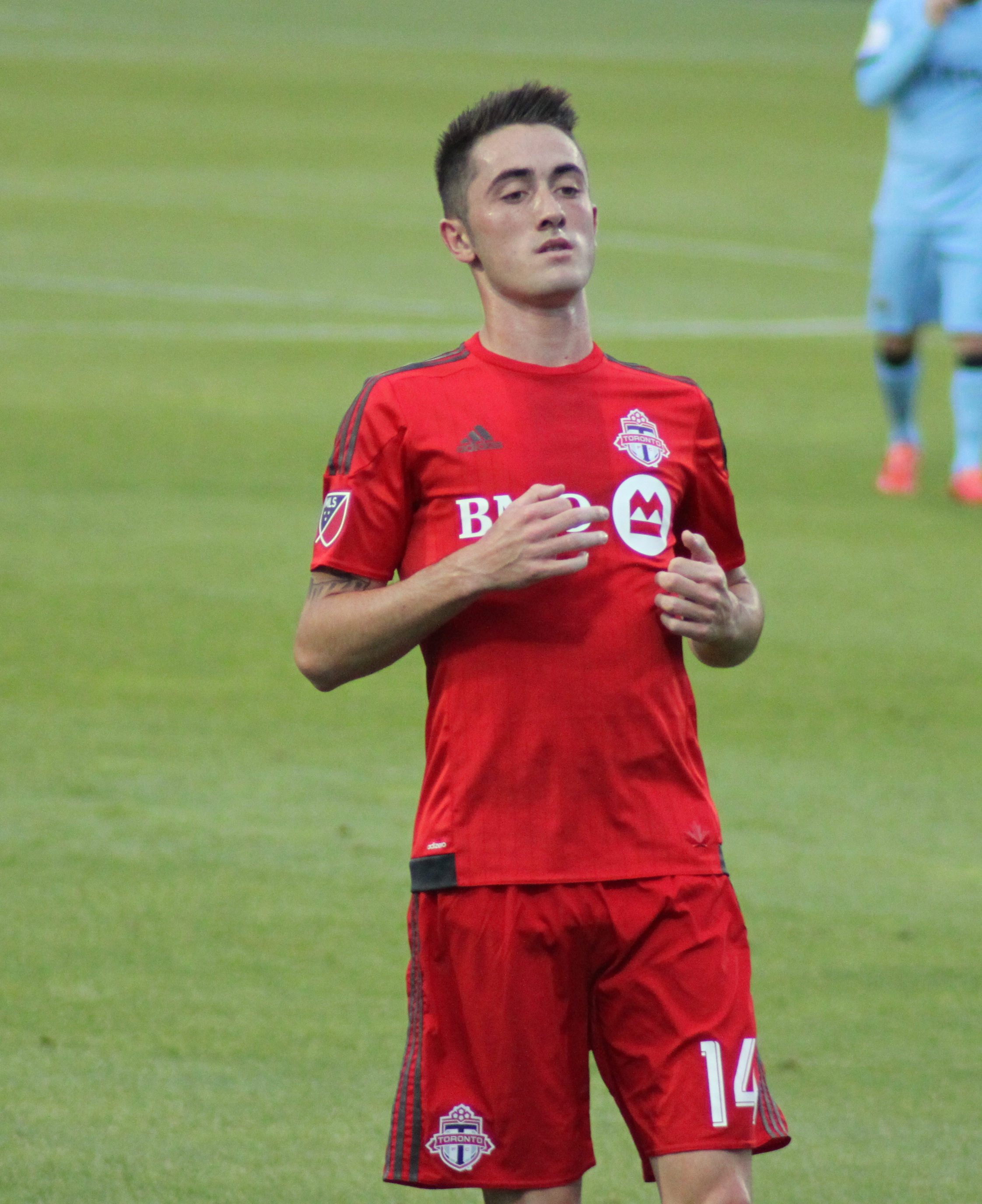 2015-05-27 Toronto FC vs. Manchester City FC @ BMO Field Toronto